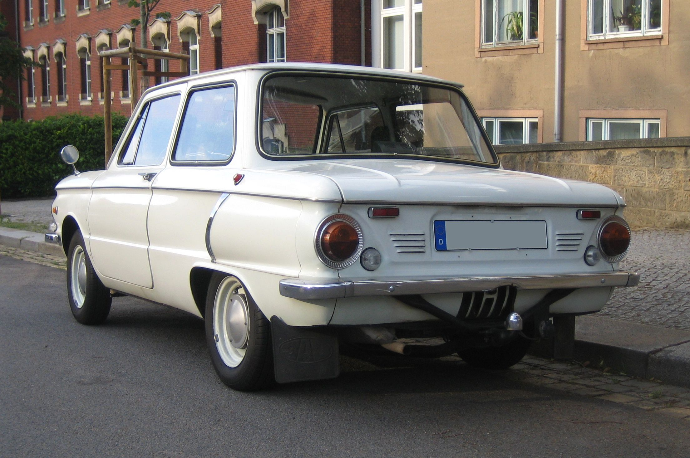 Zaporozhets ZAZ-968 (rear view)